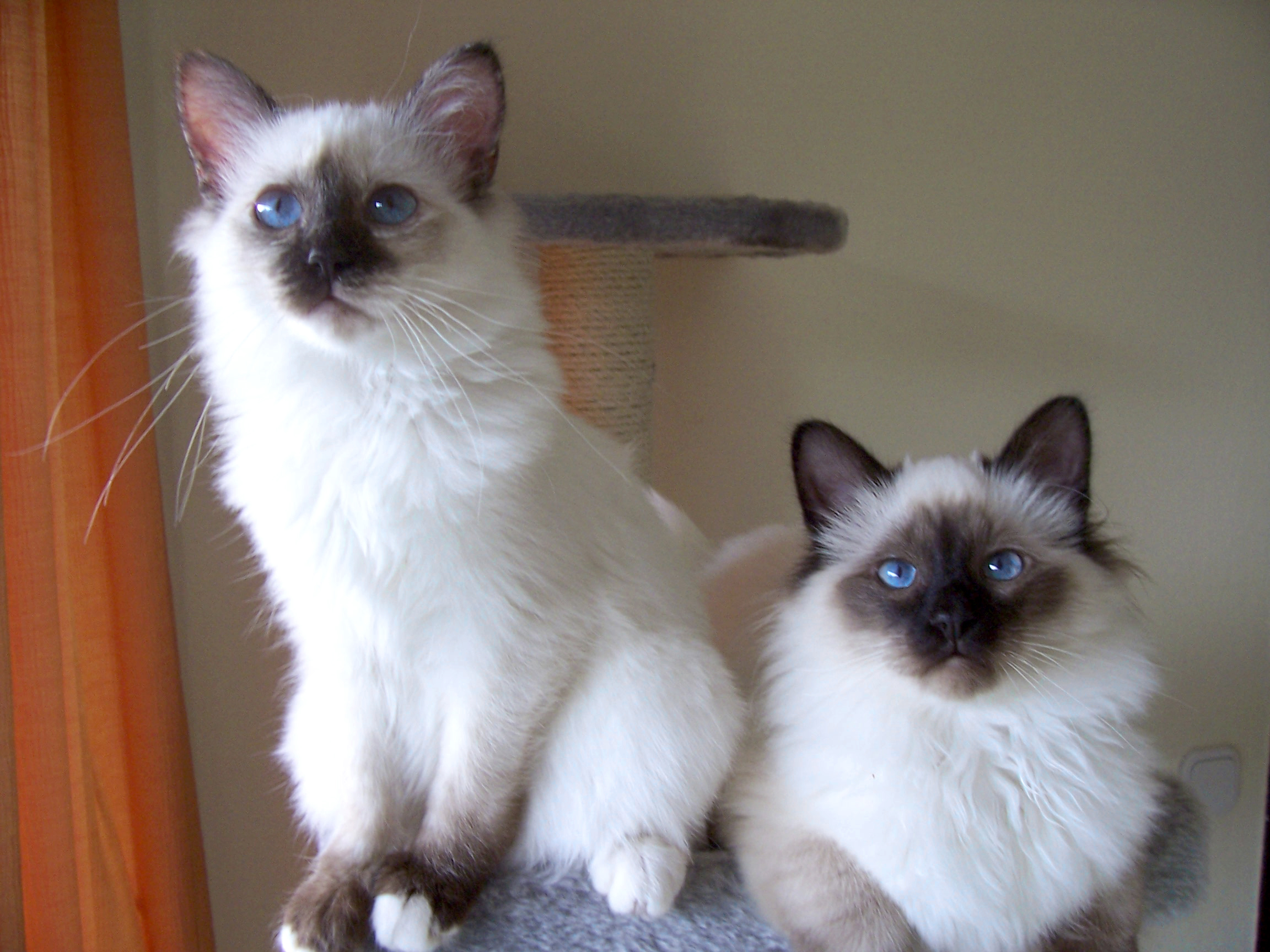 Birman cats (male and female), Kater aus Privathaltung